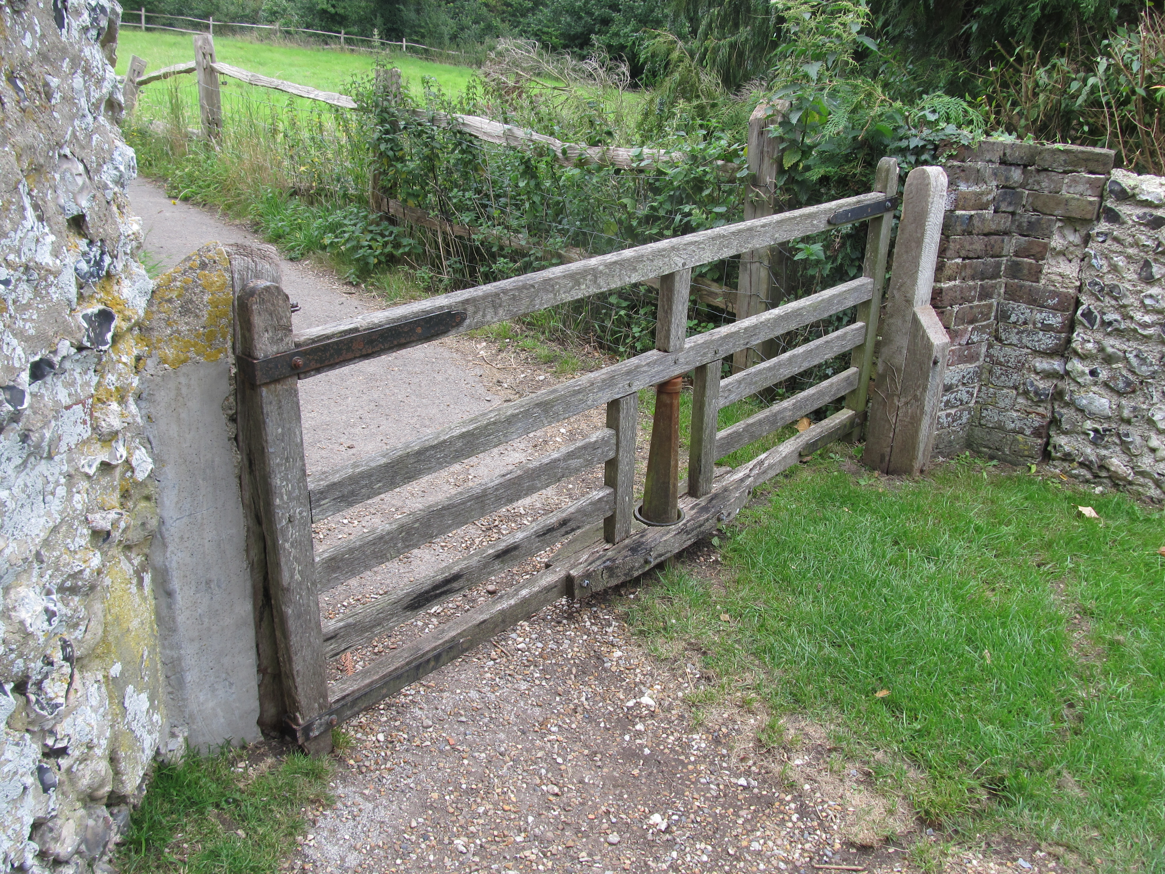 The Tapsel gate at St Andrew's church, Jevington, East Sussex, England